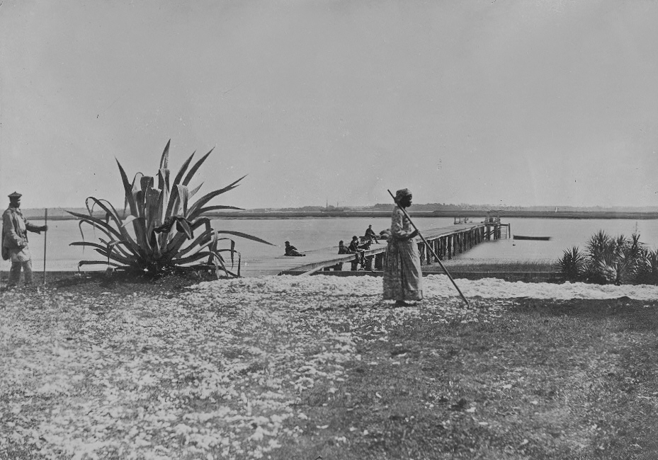 John E. Seabrook's Wharf. Century plant. Edisto Island, South Carolina. Drying cotton. Cotton drying on ground, tended by an African American man and woman; large plant at edge of wharf, which juts out into water, many men lounge on it.